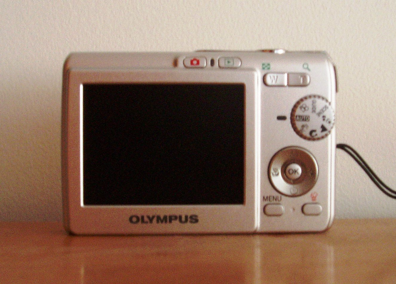 Back view of the Olympus FE-190 digital camera